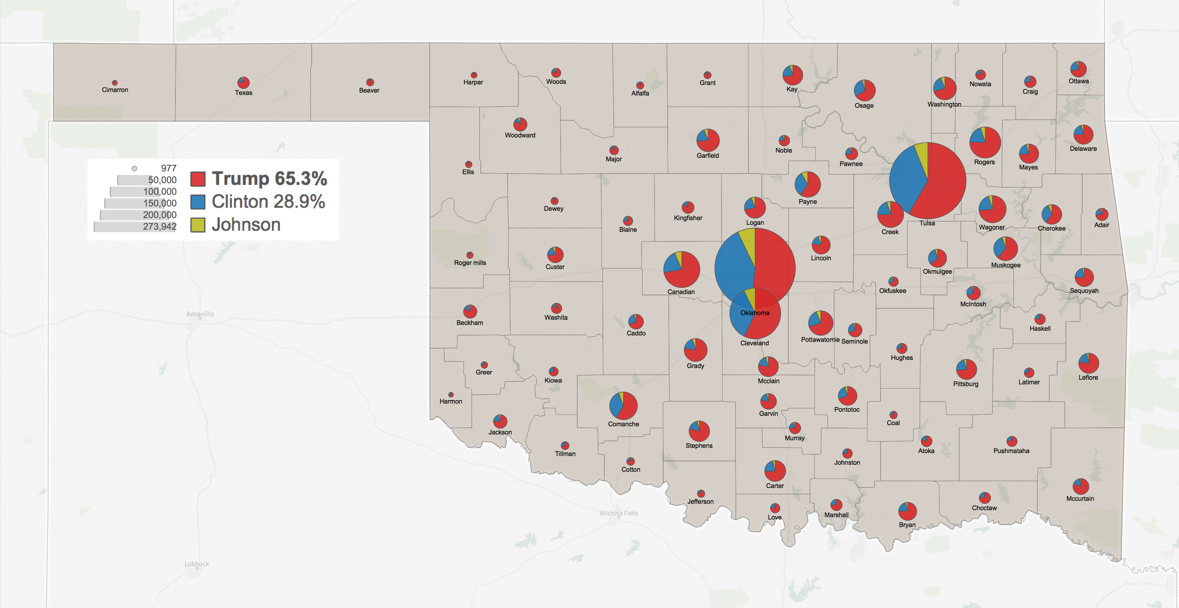 United States presidential election in Oklahoma, 2016 results by county showing number of votes by size and candidate by color. Source Official Results General Election — November 8, 2016[1], The State of Oklahoma, 2016 CountyTrumpClinton 28.9%Johnson Adair4,7871,382344 Alfalfa1,933216109 Atoka4,084795139 Beaver1,99317674 Beckham6,308960284 Blaine2,884711198 Bryan10,4782,804536 Caddo6,4822,420446 Canadian39,98611,6743,618 Carter13,7524,002780 Cherokee9,9945,4561,040 Choctaw4,2061,067153 Cimarron9637145 Cleveland62,53838,8298,083 Coal1,89841190 Comanche19,18311,4631,918 Cotton2,054424124 Craig4,2831,252250 Creek21,5755,8411,414 Custer7,8262,104611 Delaware11,8263,311579 Dewey1,96522261 Ellis1,61115561 Garfield16,0094,3971,304 Garvin8,2531,855438 Grady17,3163,8821,088 Grant1,82728886 Greer1,48232391 Harmon71522537 Harper1,31813447 Haskell3,701882155 Hughes3,388961177 Jackson5,9691,473364 Jefferson1,91036575 Johnston3,093786139 Kay12,1723,738893 Kingfisher5,156786189 Kiowa2,596767130 Latimer3,100797159 Leflore13,3623,250609 Lincoln10,8542,430741 Logan13,6334,2481,098 Love2,922735132 Major2,948310149 Marshall4,2061,096190 Mayes11,5553,423739 McIntosh5,5052,123335 Mcclain13,1692,894795 Mccurtain8,6561,802268 Murray4,1751,087266 Muskogee15,0437,9771,196 Noble3,715901262 Nowata3,321742174 Okfuskee2,800943200 Oklahoma141,569112,81319,560 Okmulgee8,9444,385620 Osage12,5775,597792 Ottawa7,6312,584475 Pawnee4,7291,344291 Payne16,6518,7882,321 Pittsburg12,7533,711807 Pontotoc10,4313,637763 Pottawatomie17,8486,0151,589 Pushmataha3,581748154 Roger mills1,54715161 Rogers30,9137,9022,047 Seminole5,6132,071353 Sequoyah10,8883,061488 Stephens14,1823,086636 Texas4,621858301 Tillman1,944657105 Tulsa144,25887,84714,949 Wagoner23,0056,7231,572 Washington15,8255,0481,351 Washita3,854588189 Woods2,947522199 Woodward6,347873375 } Date8 February 2017SourceOwn workAuthorDennis Bratland Licensing[edit]